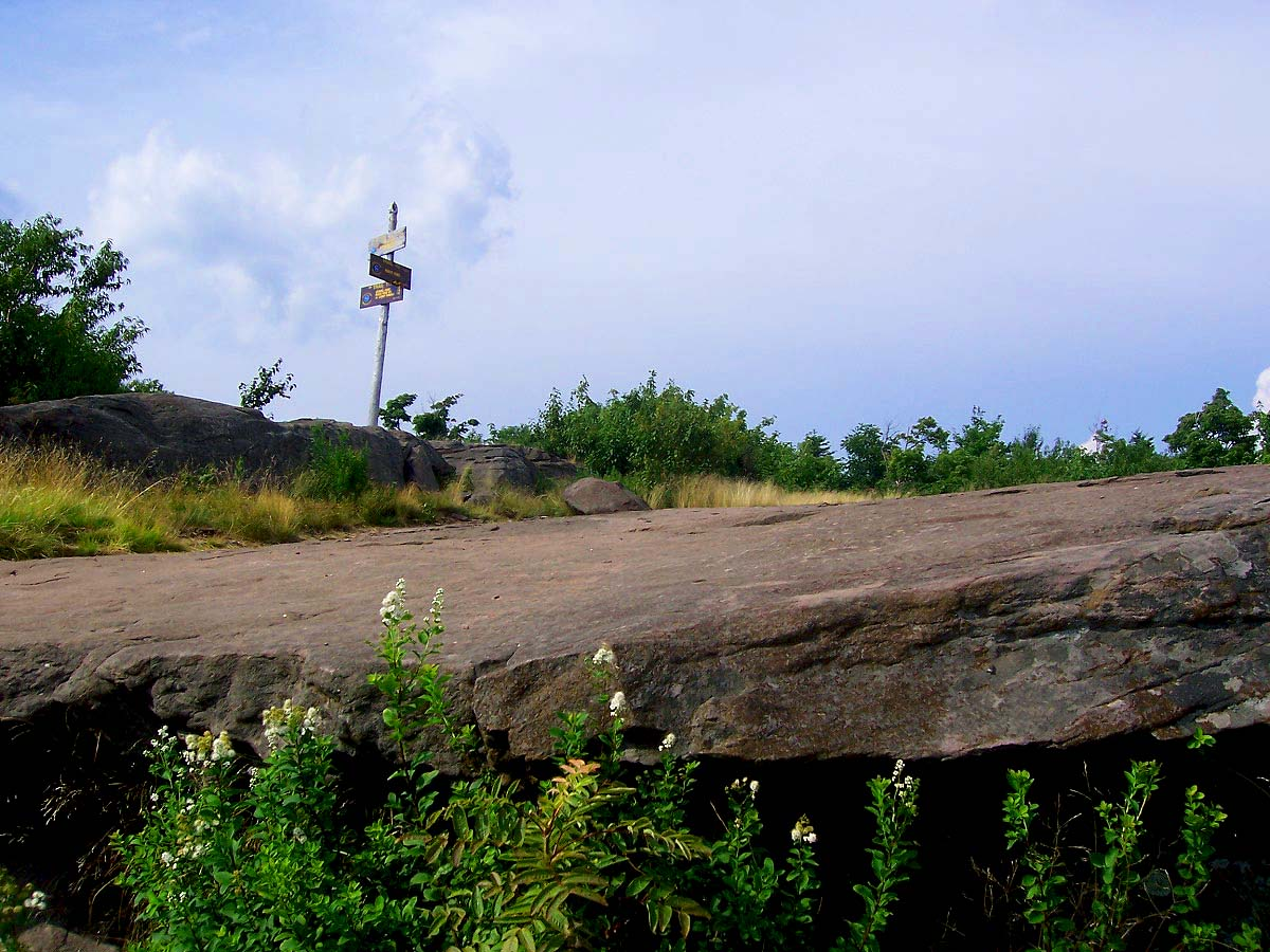 Photographed by Daniel Case 2005-08-03